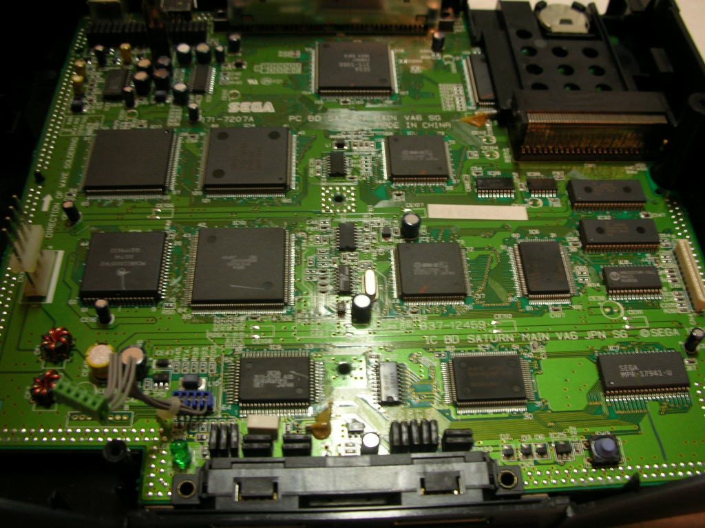 Sega Saturn Version 2 Motherboard